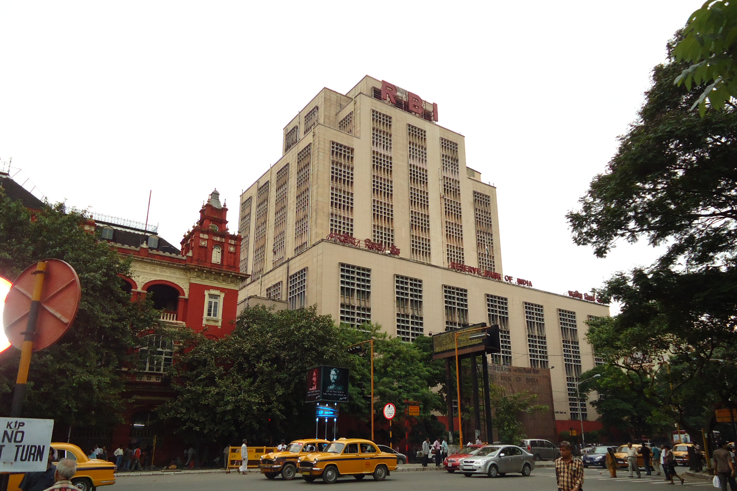 Reserve Bank of India